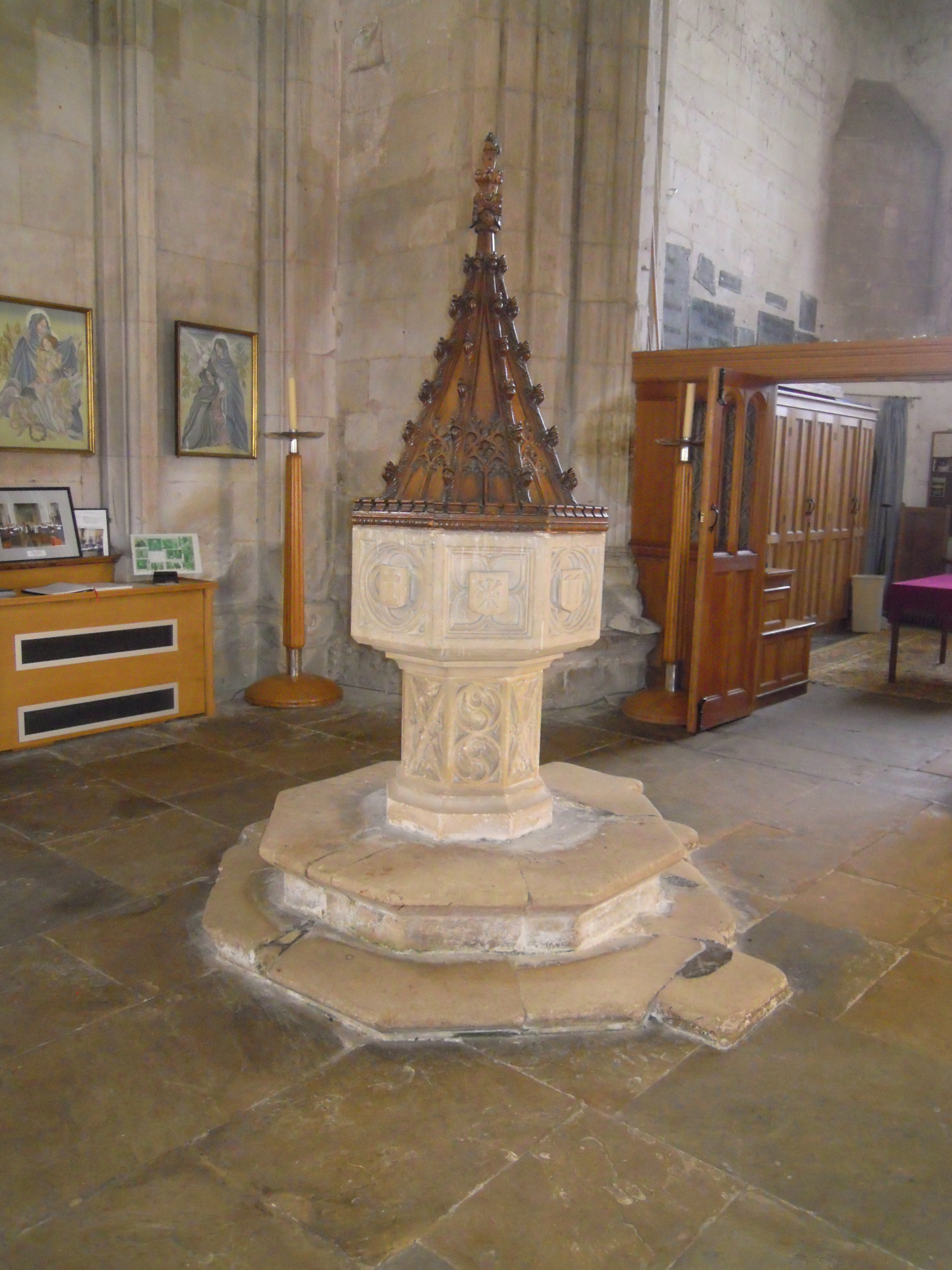 The baptismal font in the Church of St Mary the Virgin, Ashwell